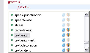 Code assist function from Aptana